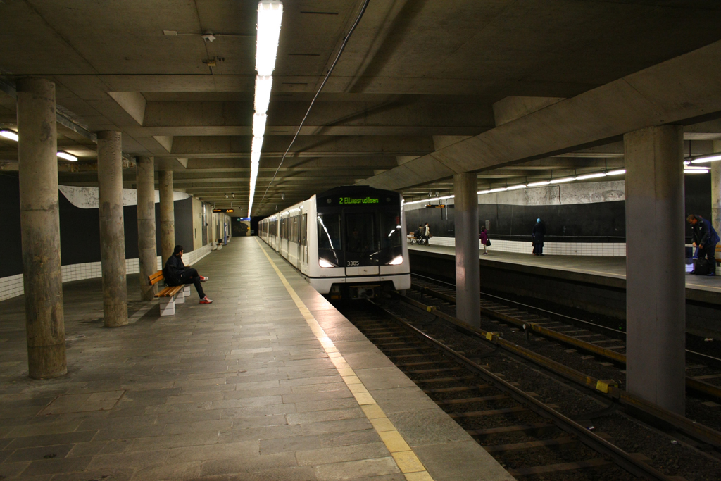 Furuset Metrostation. Seen from Rail 1. Faced towards Lindeberg.